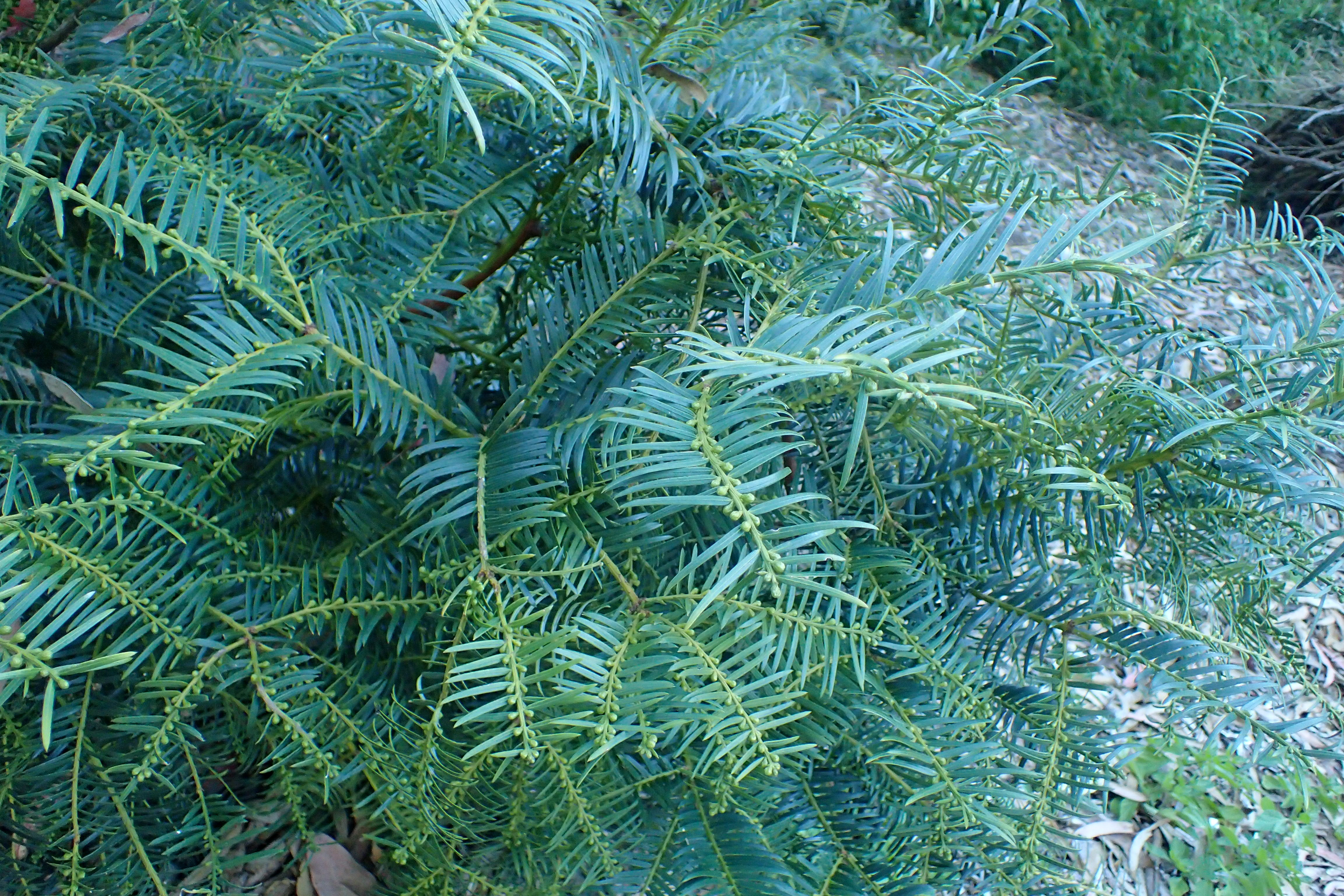 Cephalotaxus mannii in the San Francisco Botanical Garden